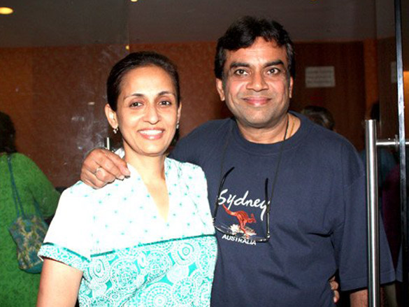 Former Miss India Swaroop Sampat and her husband actor Paresh Rawal at the screening of the film Oye Lucky! Lucky Oye!.